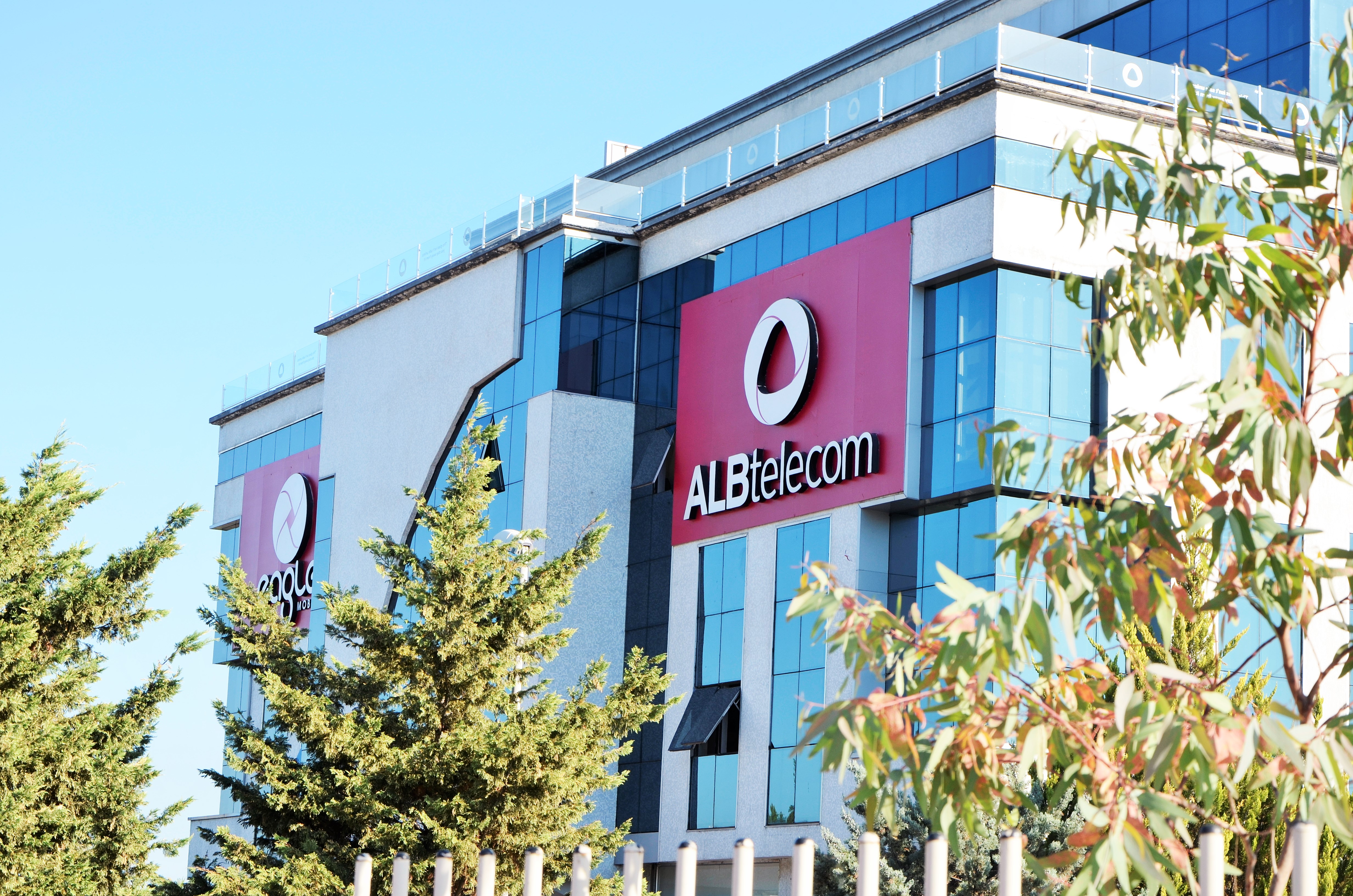 ALBtelecom Headquarters - Kashar, Tiranë, Albania